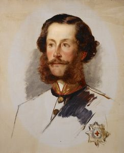 James Hamilton, 1st Duke of Abercorn (1811-1885)